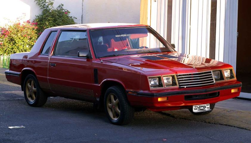 Mexican Chrysler Magnum 1983-1988